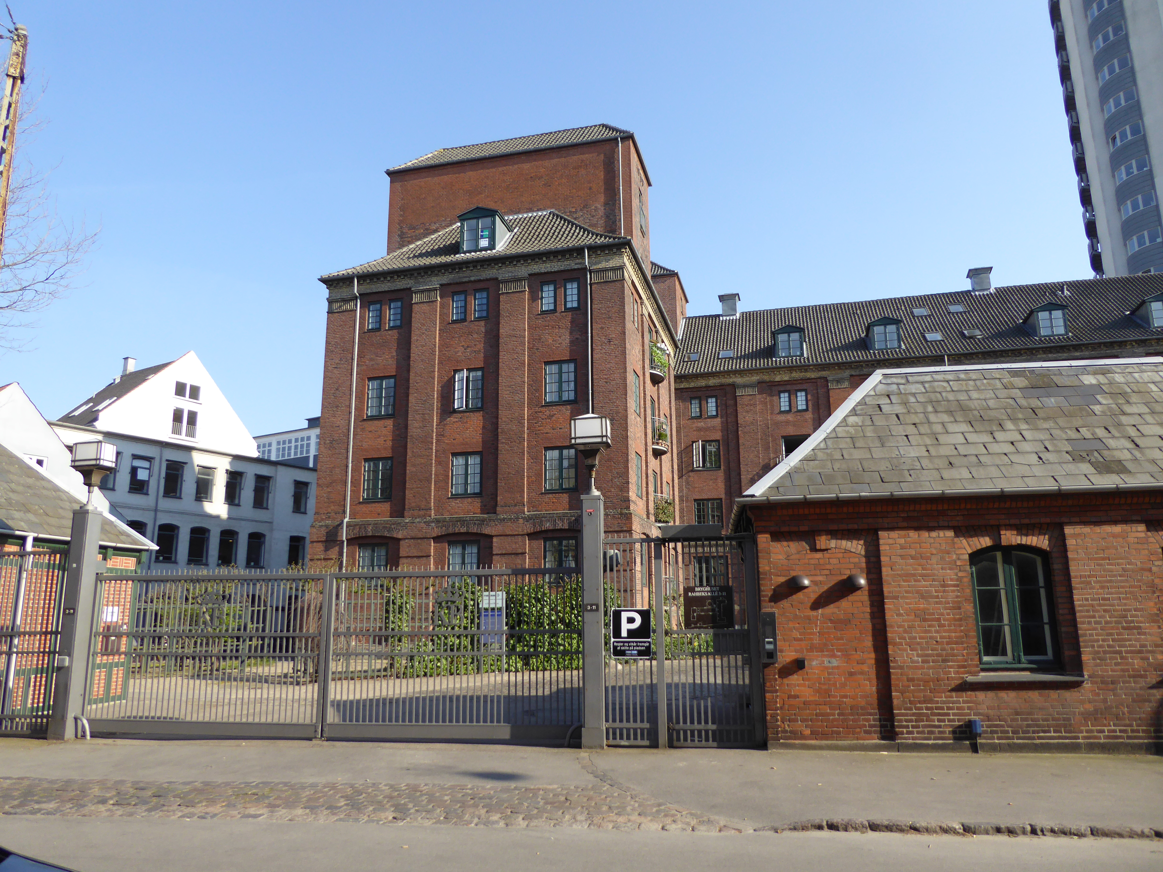 Rge former brewert buildings on Rahbeks Allé in Frederiksberg, Copenhagen, Denmark